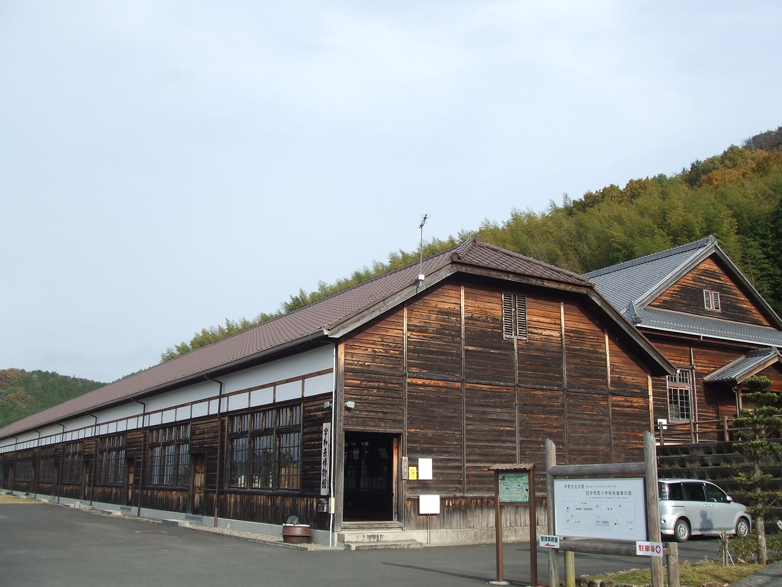 Rice plant museum in Seiyo city.